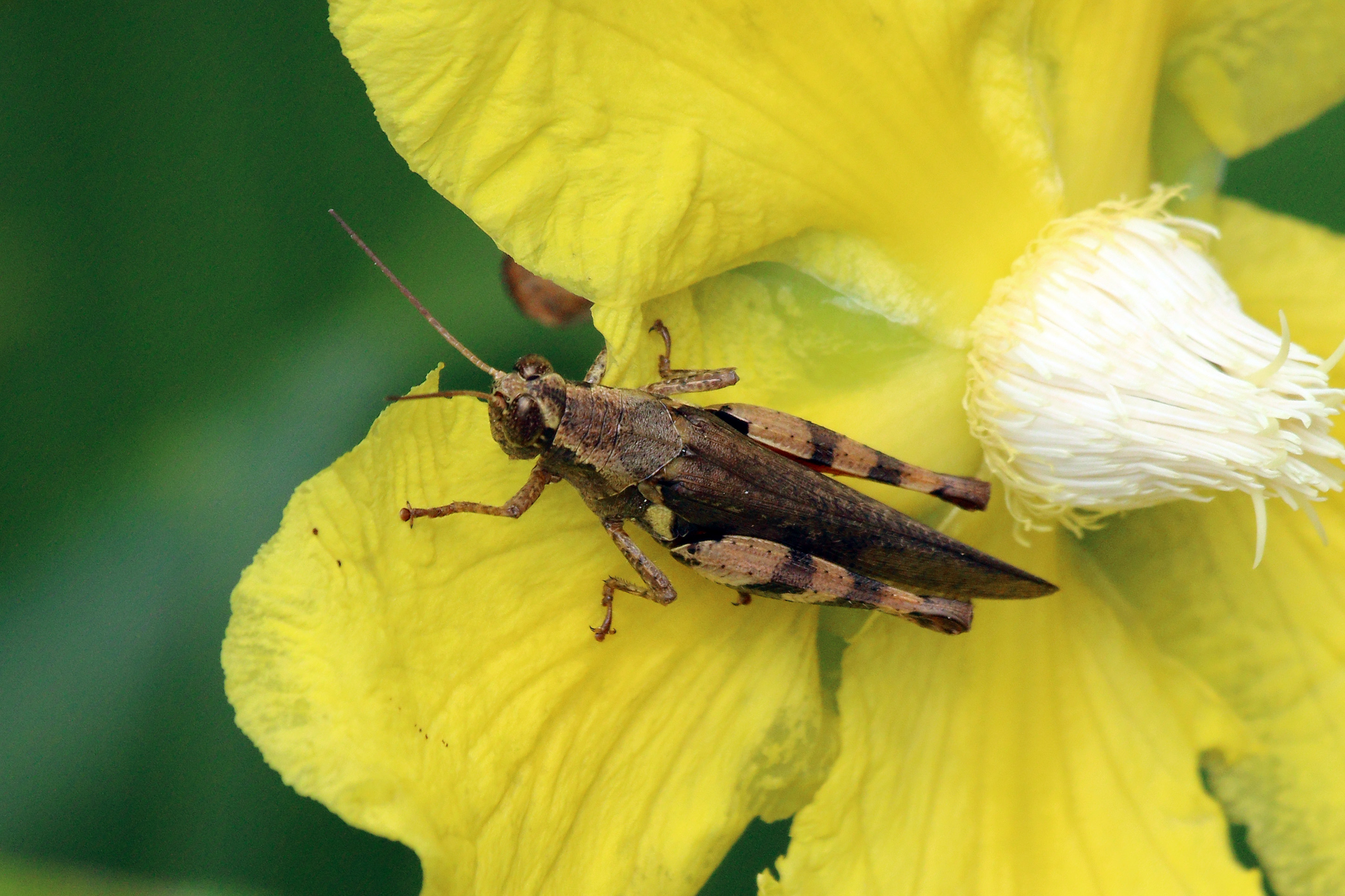 Short-horned grasshopper (Xenocatantops humilis), Sabah, Borneo